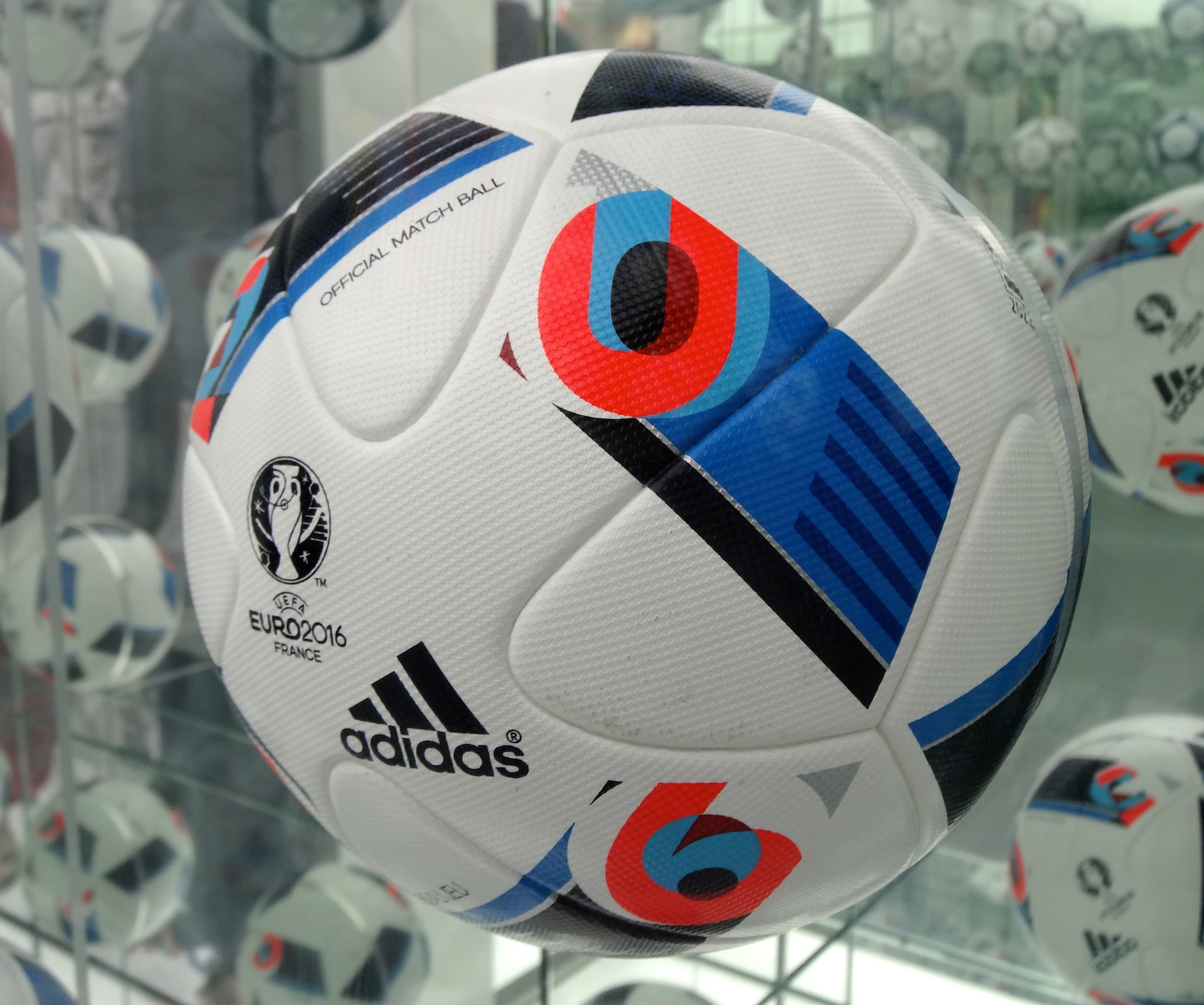 Beau Jeu Euro 2016 ball